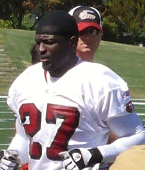 San Francisco 49ers cornerback Walt Harris at a 2007 training camp